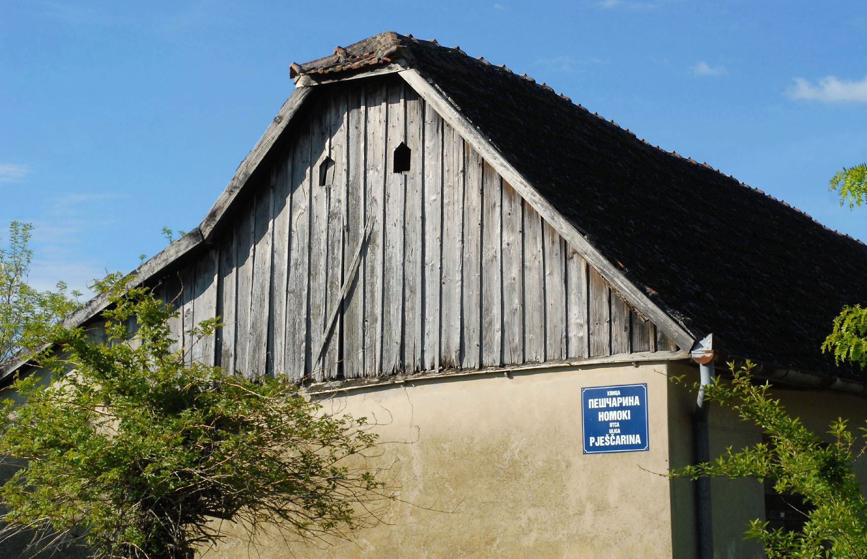 Front wall of attic on a traditionally built old house in Vojvodina.